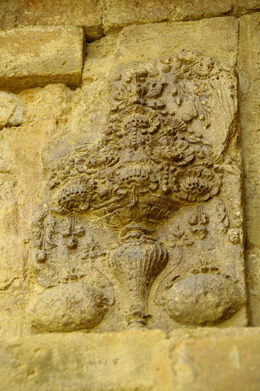 Candi Gunung Gangsir, Beji, Pasuruan, Jawa Timur